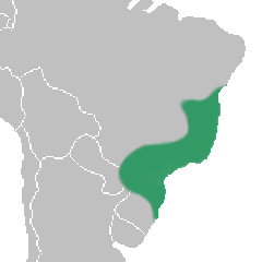 Leptotes (Orchidaceae) distribution map